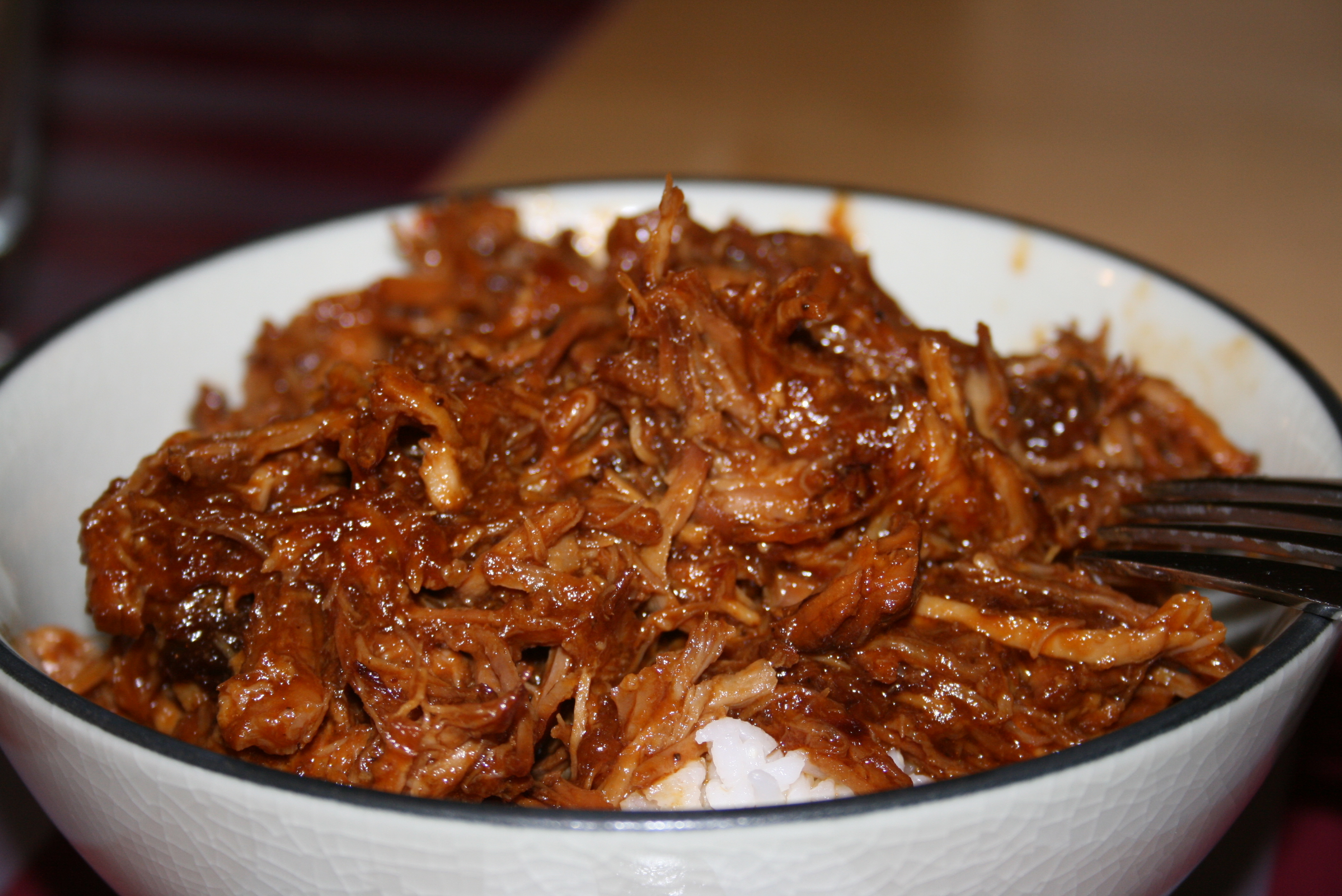 New York, NY - BBQ pulled pork over white rice